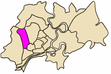 position of Tan Phu district in an outline of the core area of HCMC (Ho Chi Minh City, Vietnam) - ISO code VN-F-HC. Keywords: map, outline, city, Ho Chi Minh City, HCMC, HCM, Tan Phu district, quan Tan Phu.